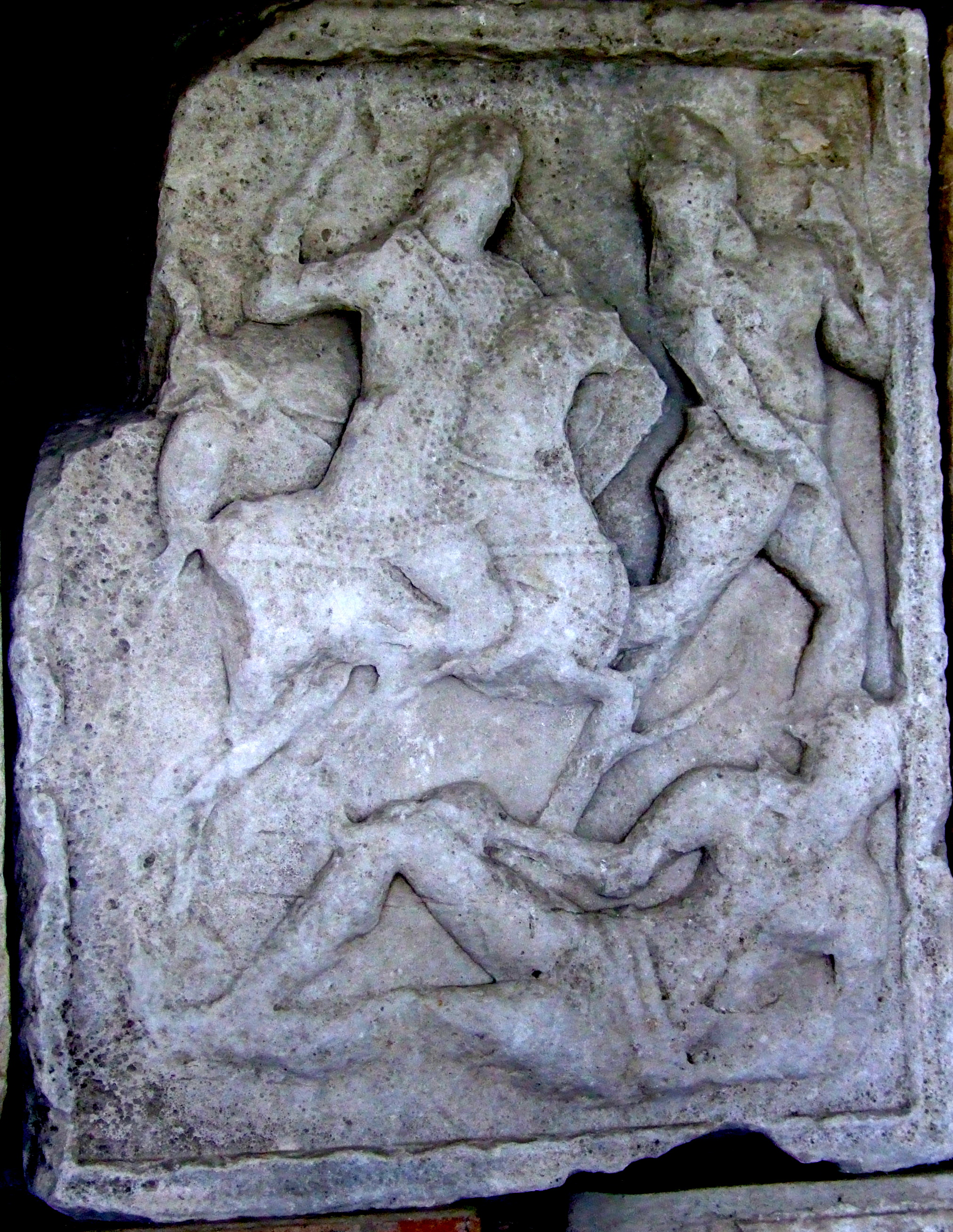 Tropeum Traiani Metope